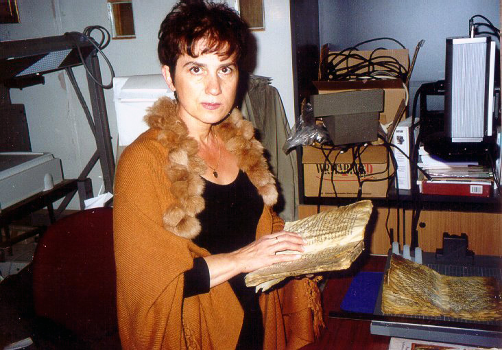 Albanisches Palimpsesthandschrift auf dem Sinai